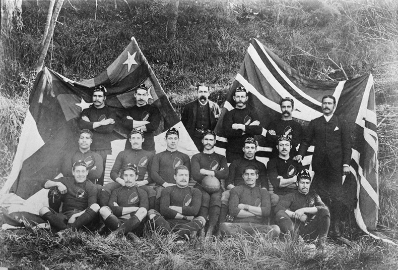 The New Zealand Natives before their match against Queensland, in front of the United Tribes flag and the Union Jack.